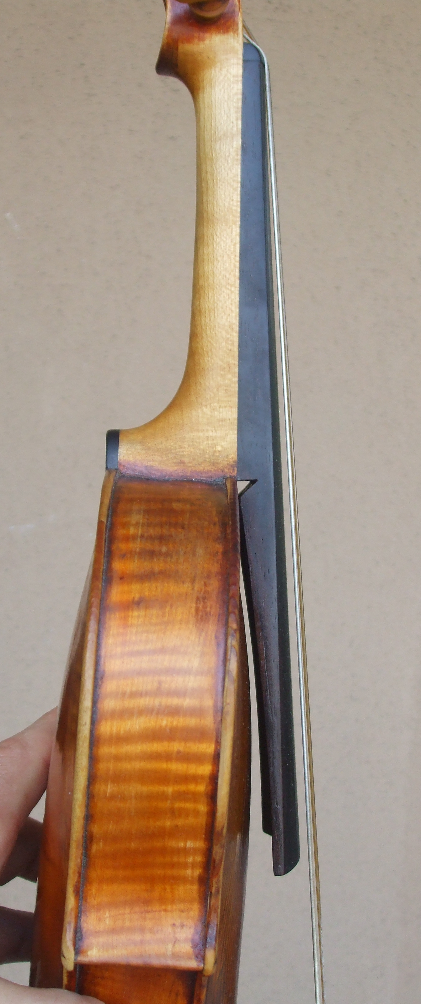 Detail of a baroque violin: neck and fingerboard